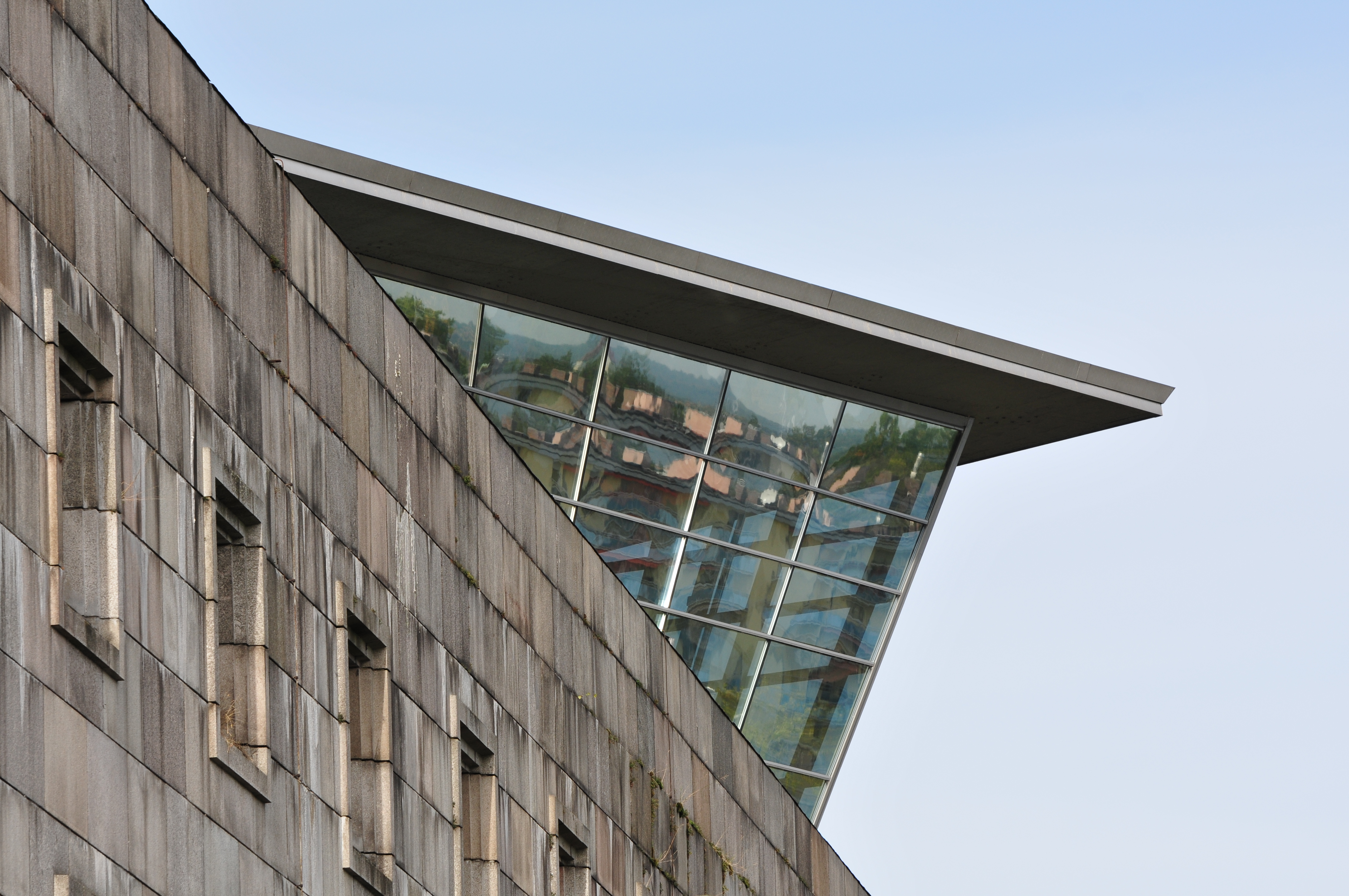 Kongreßhalle Nuremberg at the Reichsparteitagsgelände The making of this work was supported by Wikimedia Austria. For other files made with the support of Wikimedia Austria, please see the category Supported by Wikimedia Österreich.